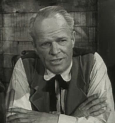 Louis Jean Heydt in Raiders of Old California - cropped screenshot